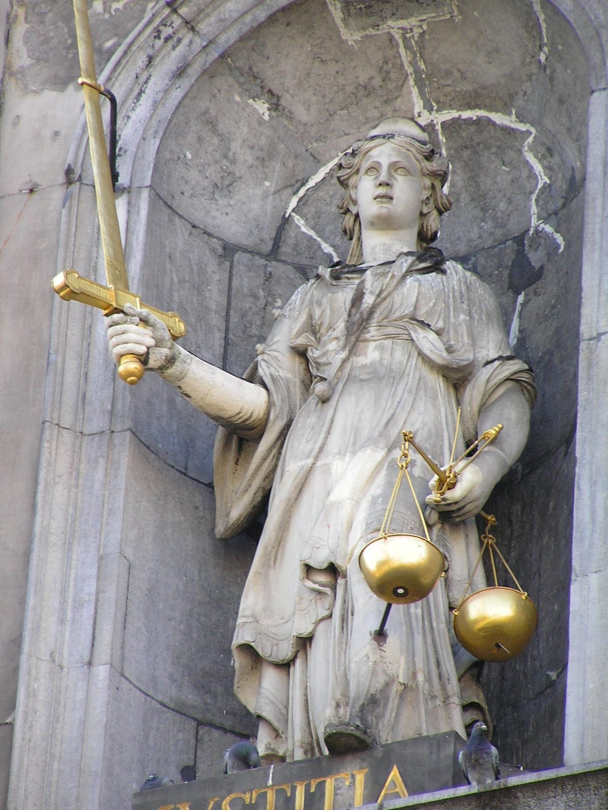 Antwerp (besides Zofingen in Switzerland) has probably the only lady justicia without a blindfold on it's city hall.....